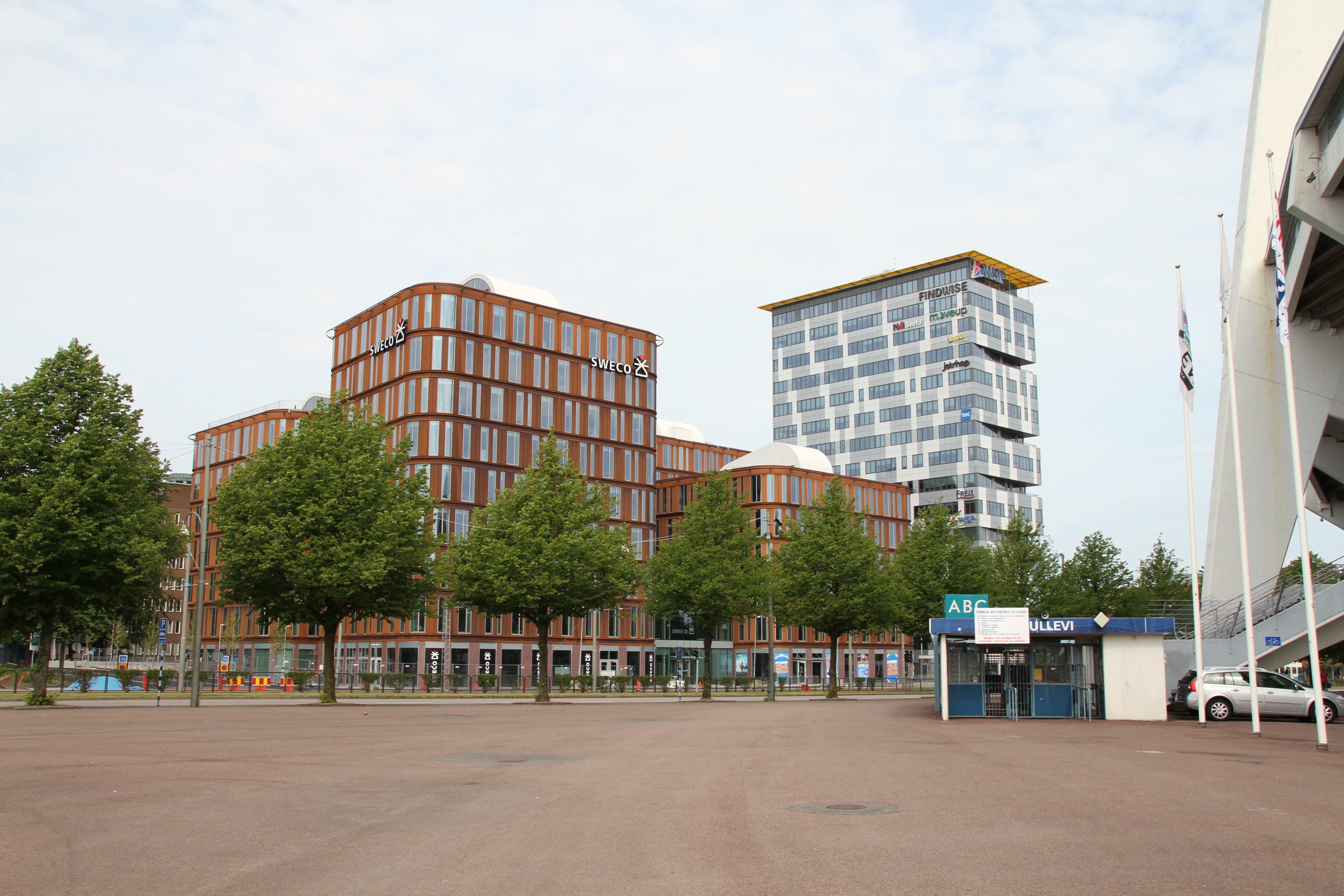 Image from Ullevi in central Gothenburg (Göteborg), west Sweden.